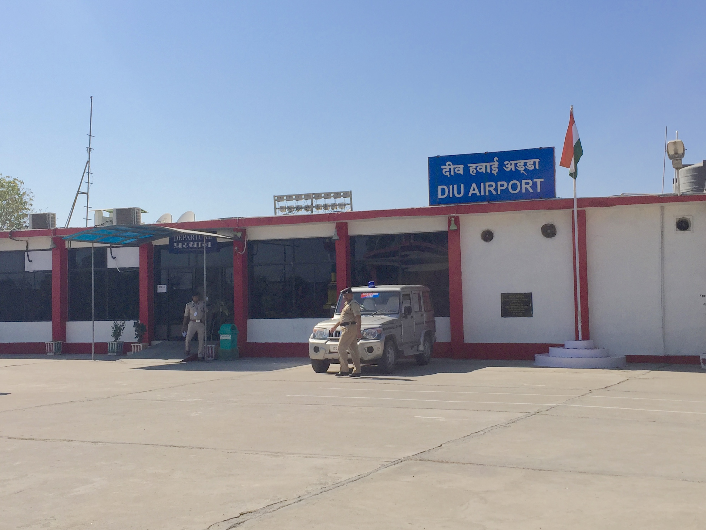 The entrance to the terminal building at Diu Airport in Diu, India